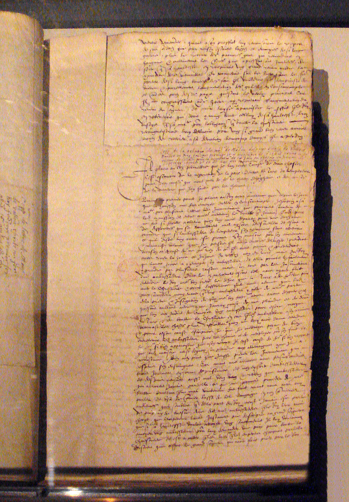 Relation_of_embassy_to_the_Ottoman_Empire_by_Jean_de_Montluc_1545.